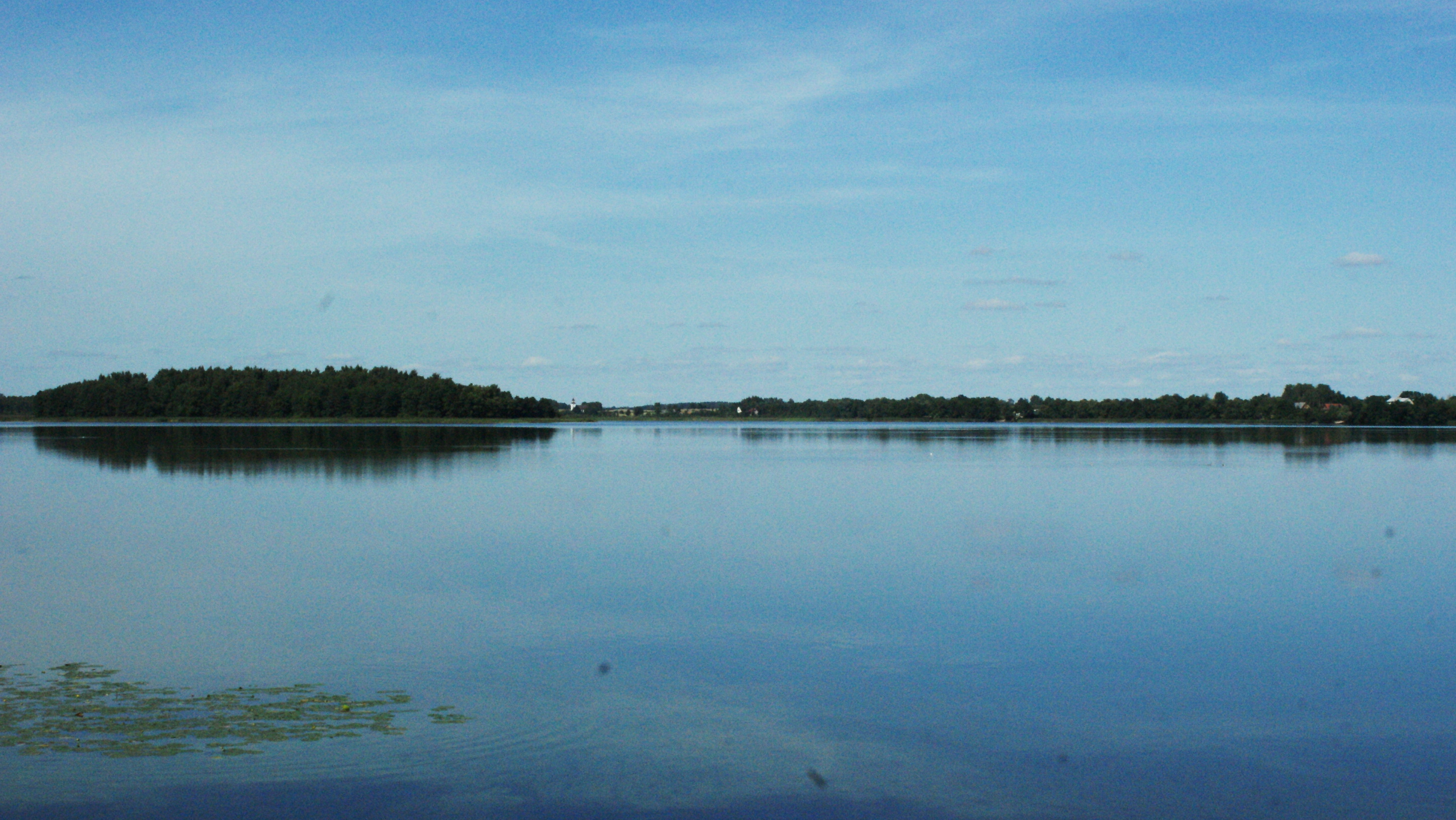 Selmet Wielki Lake, Masurian Lake District, view from the village Sordachy